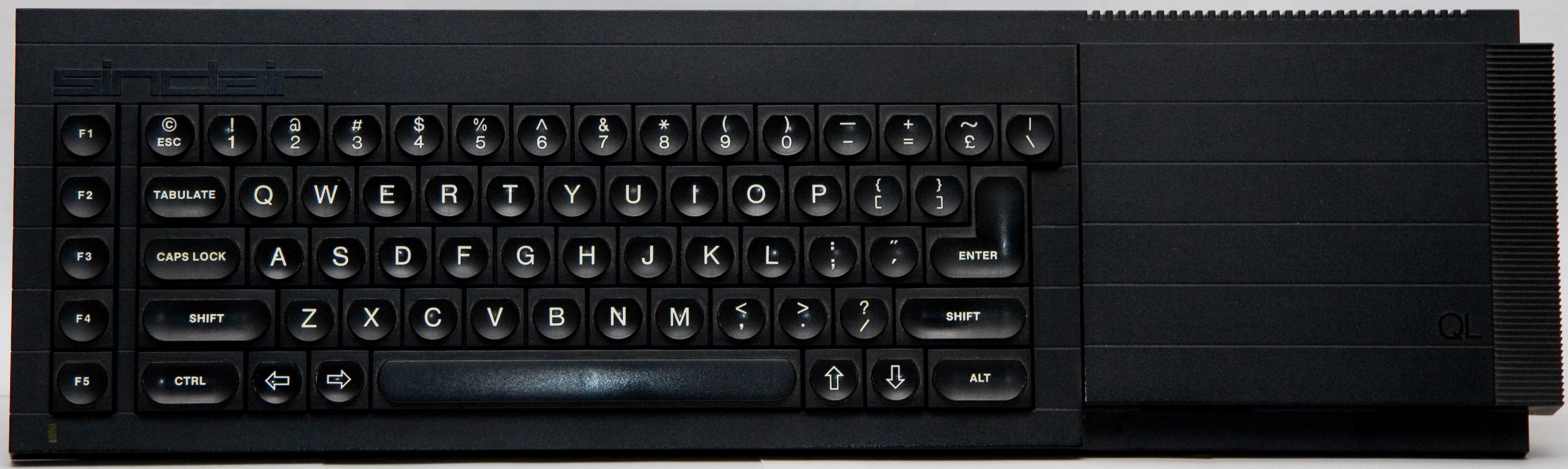 Sinclair QL